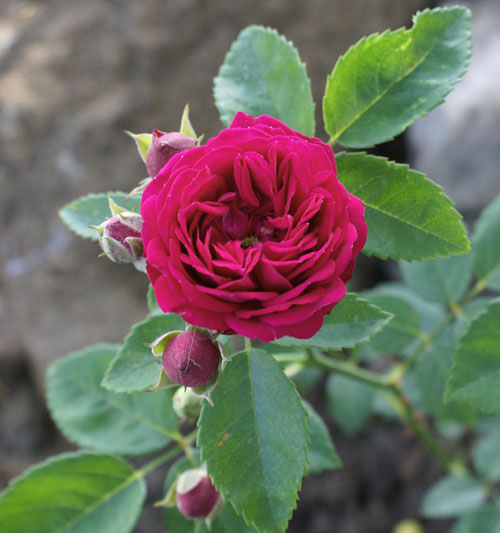 Rosa 'Chevy Chase'